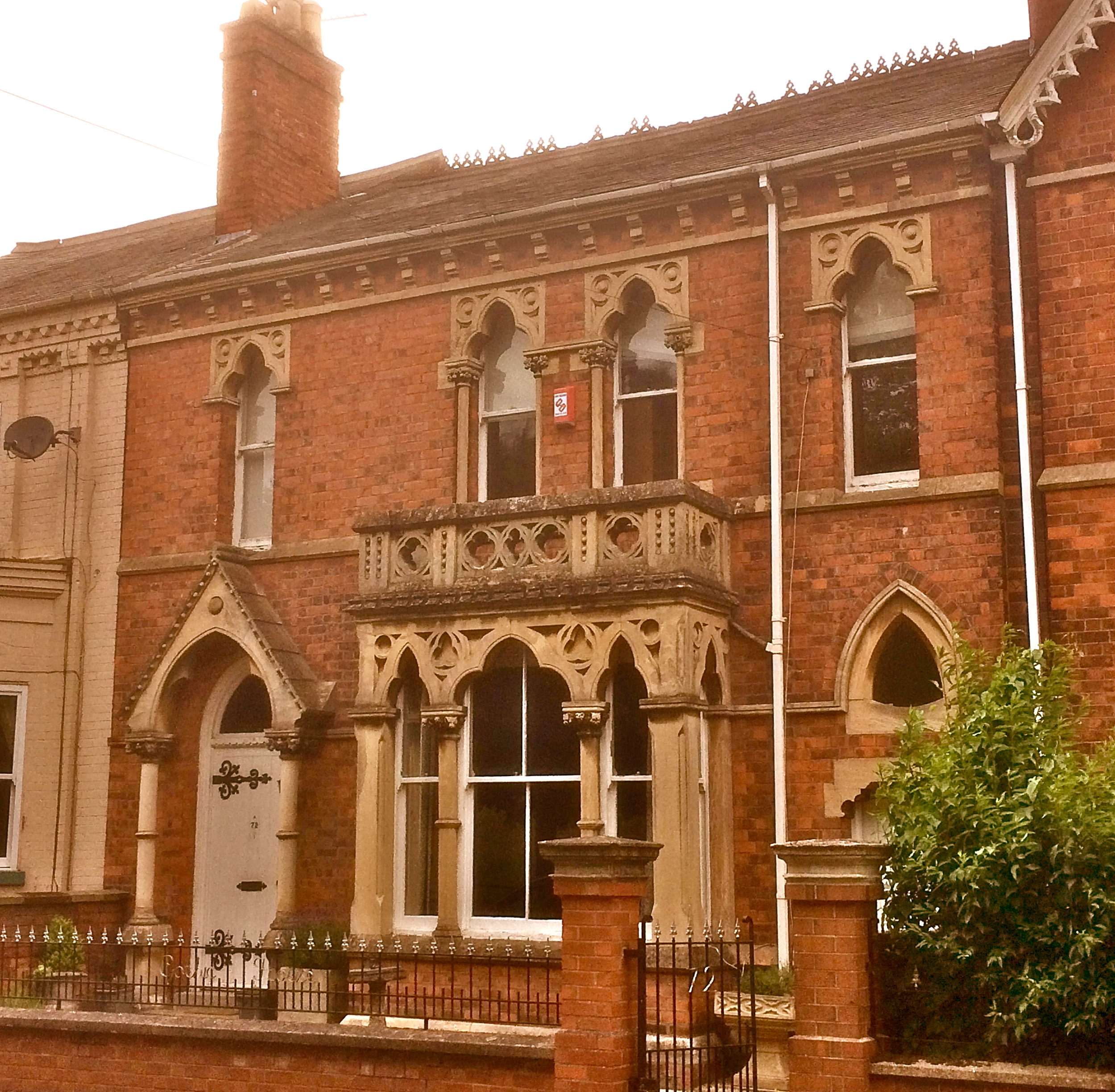 South Park, Lincoln. House by the architect Pearson Bellamy in Ruskinian Gothic Style